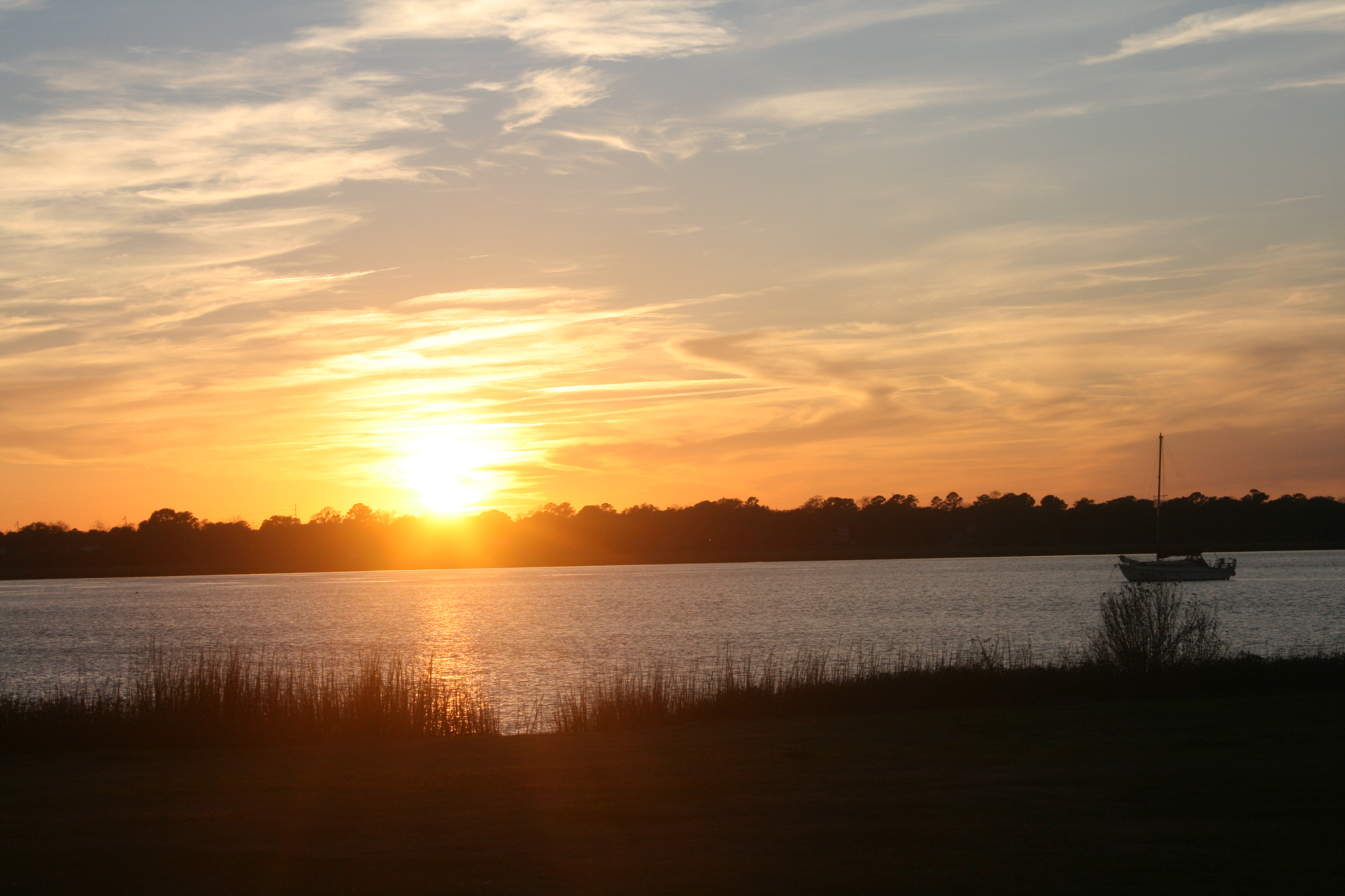 The Ashley River at sunset. Photo taken at Brittlebank Park in Charleston.